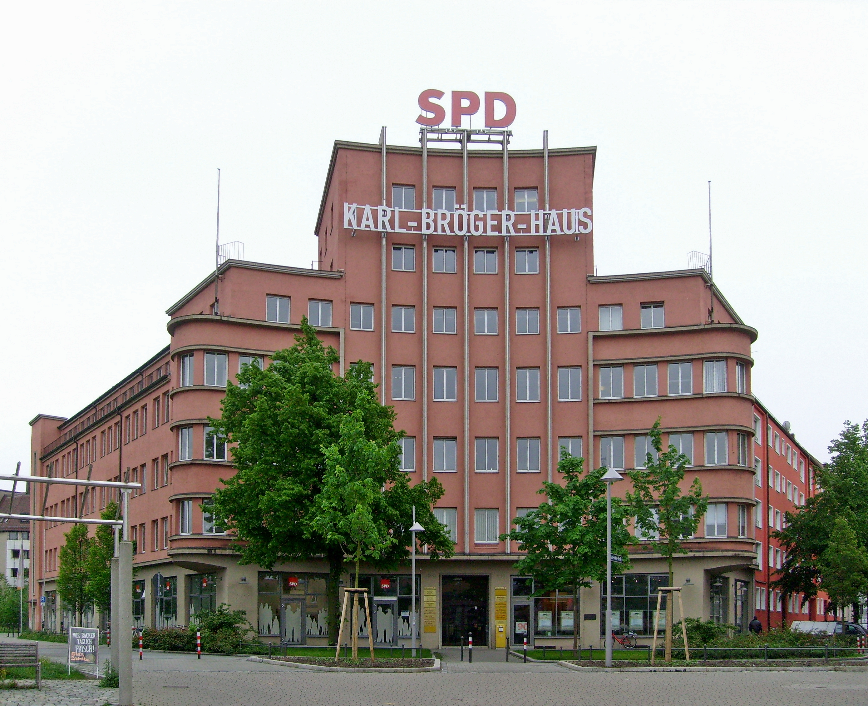 Karl-Bröger-Haus, building of German political party SPD, at Nürnberg.